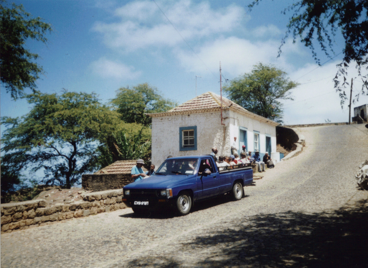 Brava, Cabo Verde: Aluguer share taxi in Nossa Senhora do Monte.